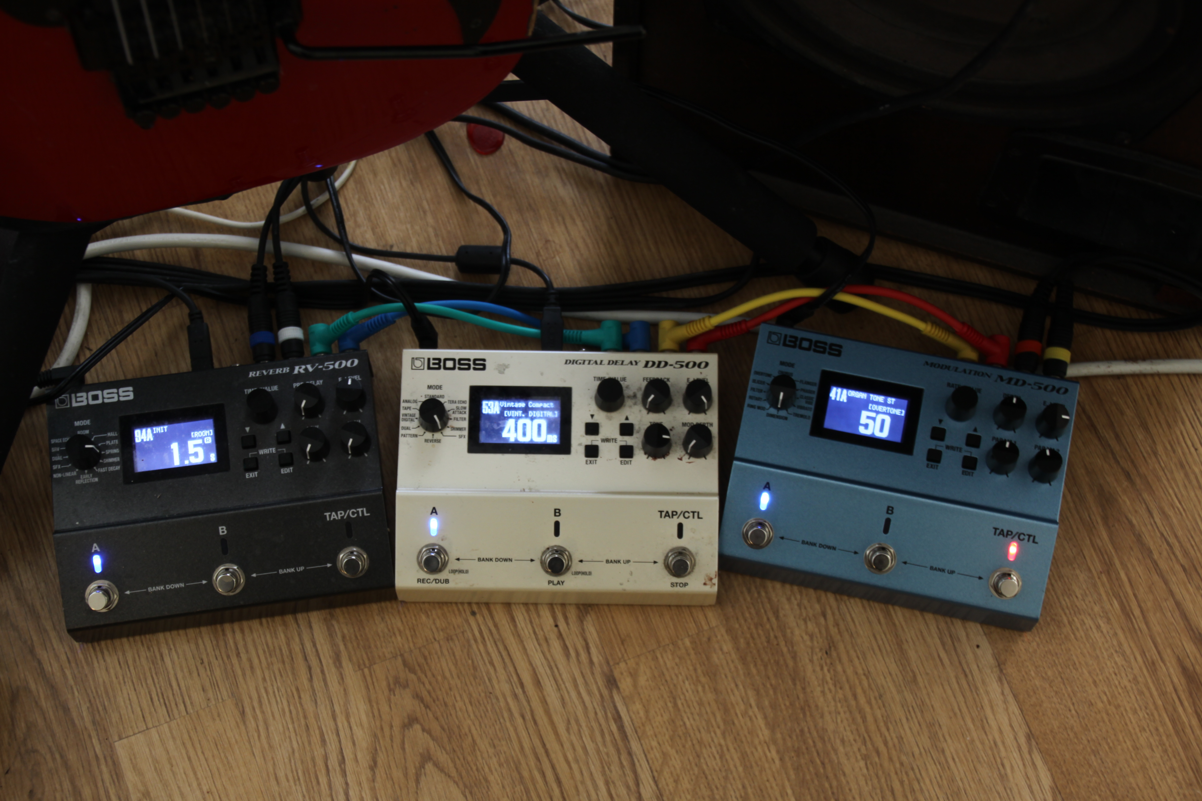 BOSS RV-500, DD-500 and MD-500 -multiefektit.